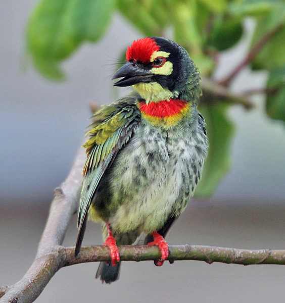 Coppersmith Barbet Megalaima haemacephala in Kolkata, West Bengal, India.